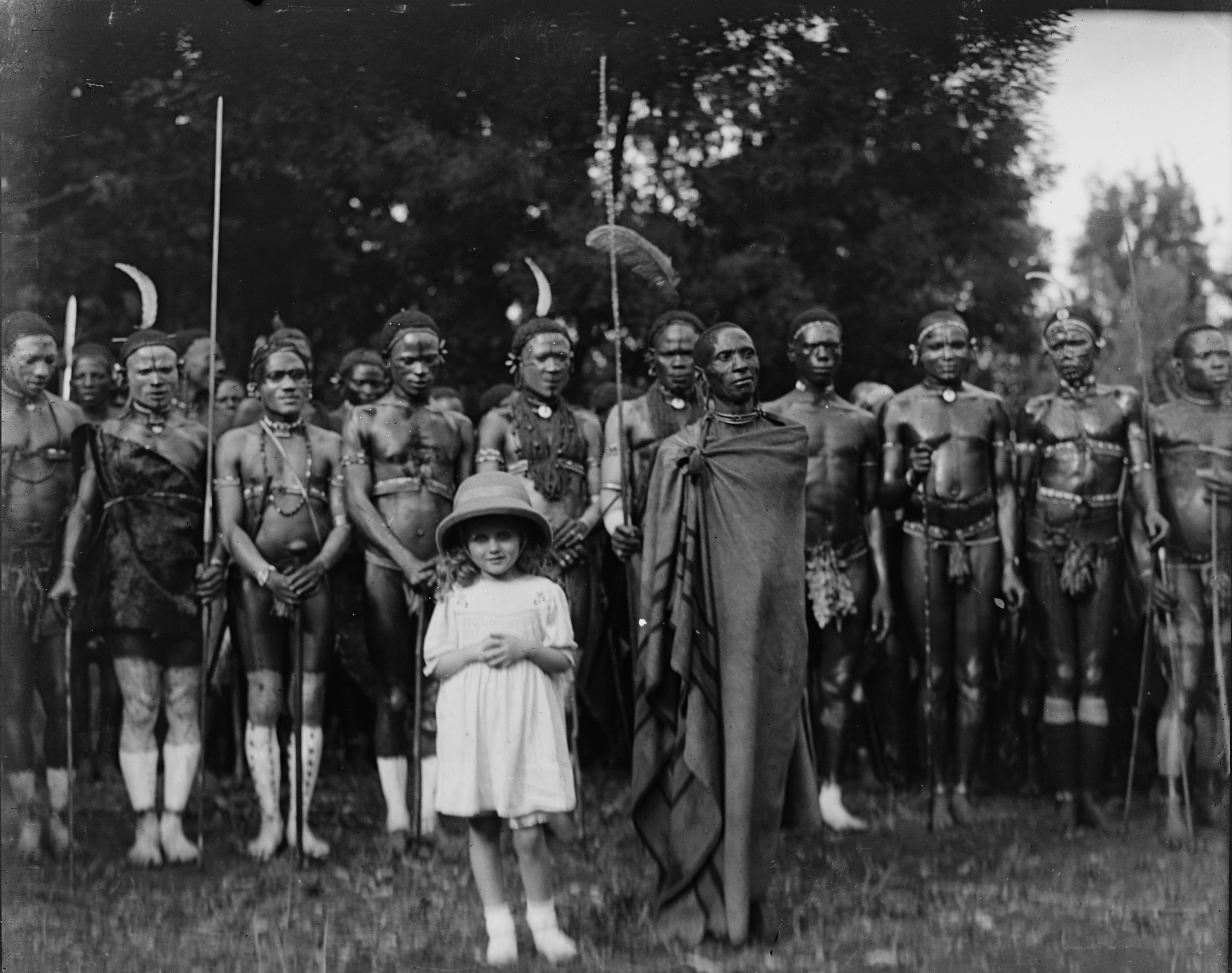 Alice Sheldon with the kikuyus, a native tribe from Africa